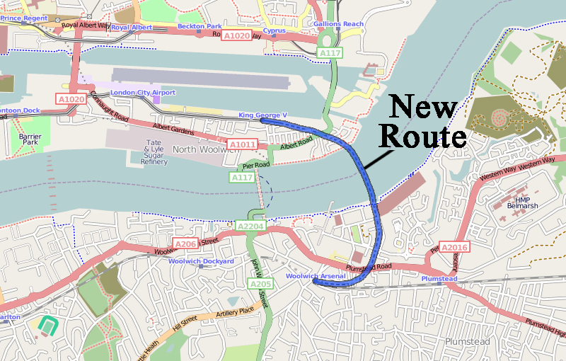 Map showing route of Woolwich Arsenal Extension to the Docklands Light Railway